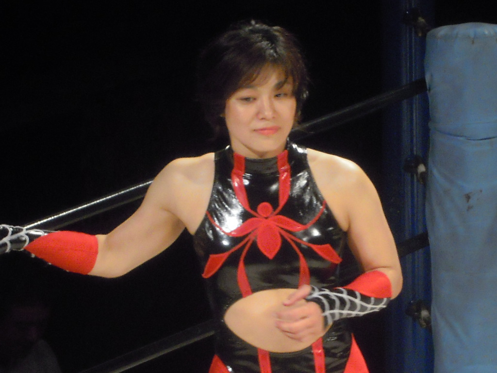 Japanese professional wrestler,Mariko Yoshida.June 12 2011 Jungle Jack 21 Tokyo Kinema club.